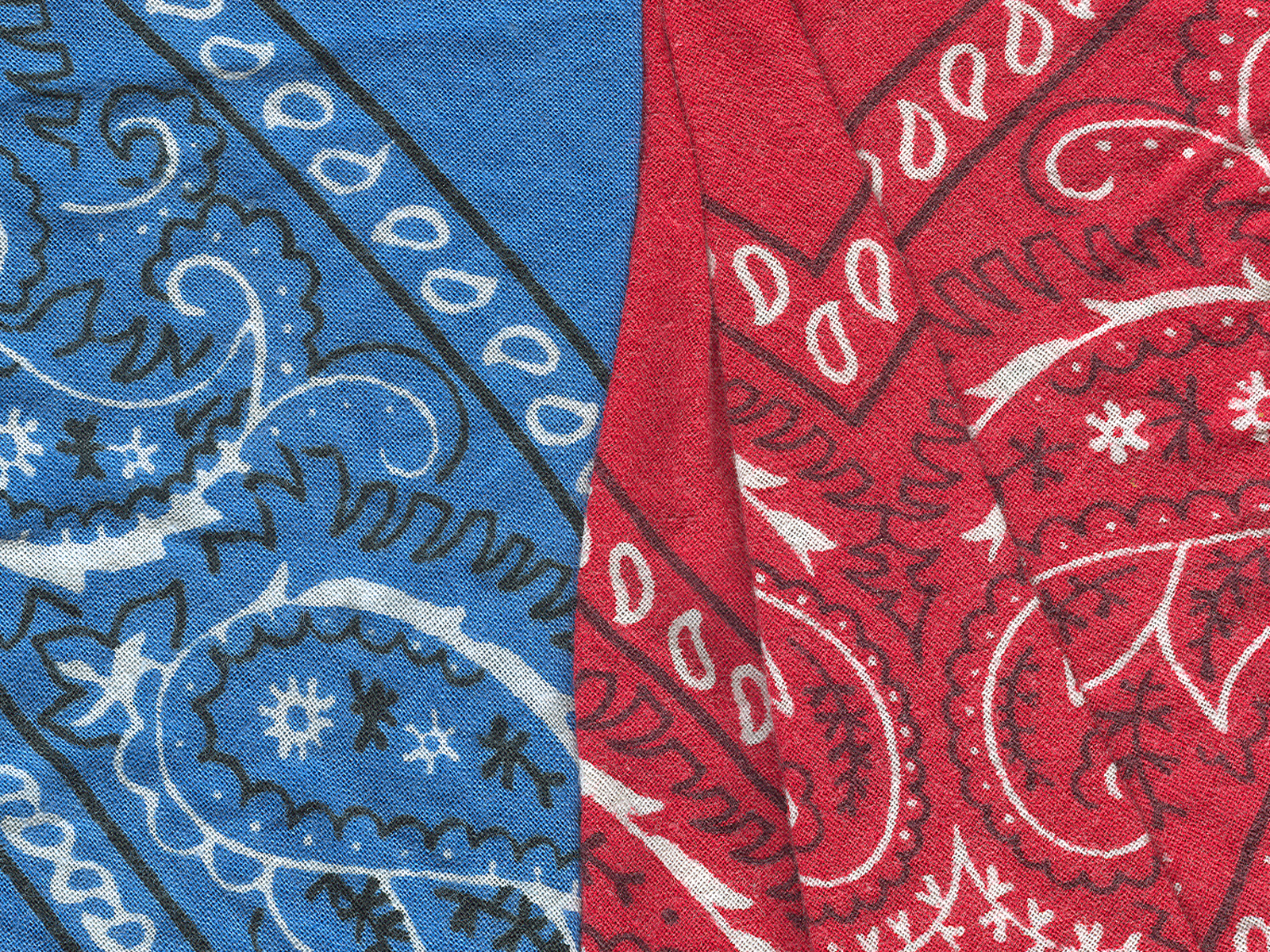 Summary I made this scan myself of two banandas for use with the current bandana article. It is a high resolution (300 dpi) JPEG.